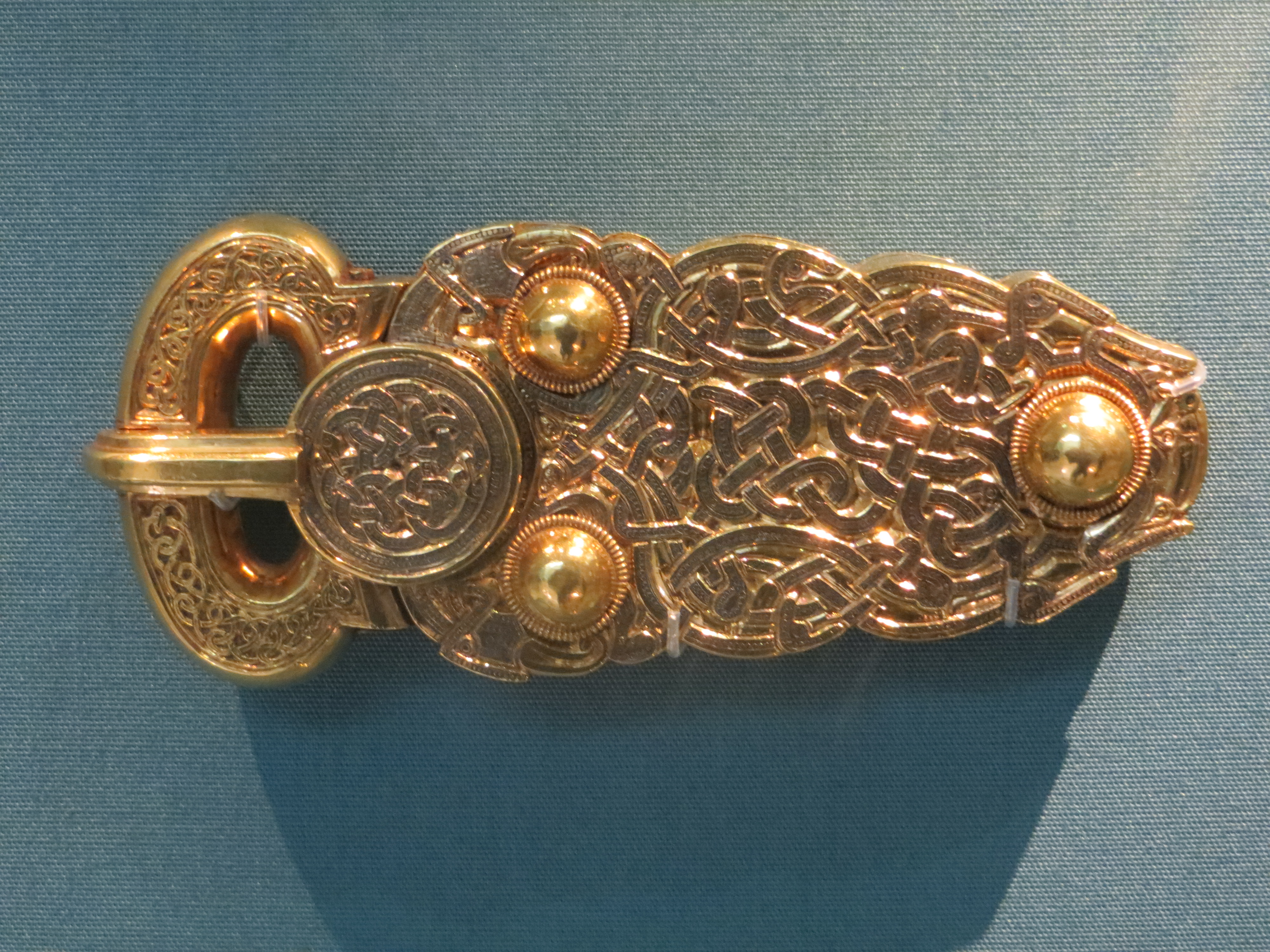 Sutton Hoo treasure in the British Museum